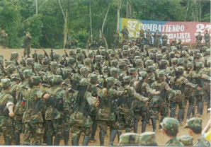 FOR IMMEDIATE RELEASE FARC guerrillas marching during the Caguan peace process March 22, 2006 DEA Public Affairs